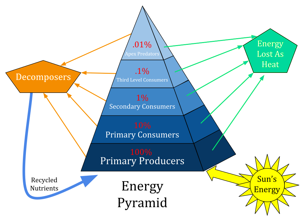 An energy pyramid is a presentation of the trophic levels in an ecosystem. Energy from the sun is transferred through the ecosystem by passing through various trophic levels. Roughly 10% of the energy ass transferred from one trophic level to the next, thus preventing a large amounts of trophic levels. There must be higher amounts of biomass at the bottom of the pyramid to support the energy and biomass requirements of the higher trophic levels.